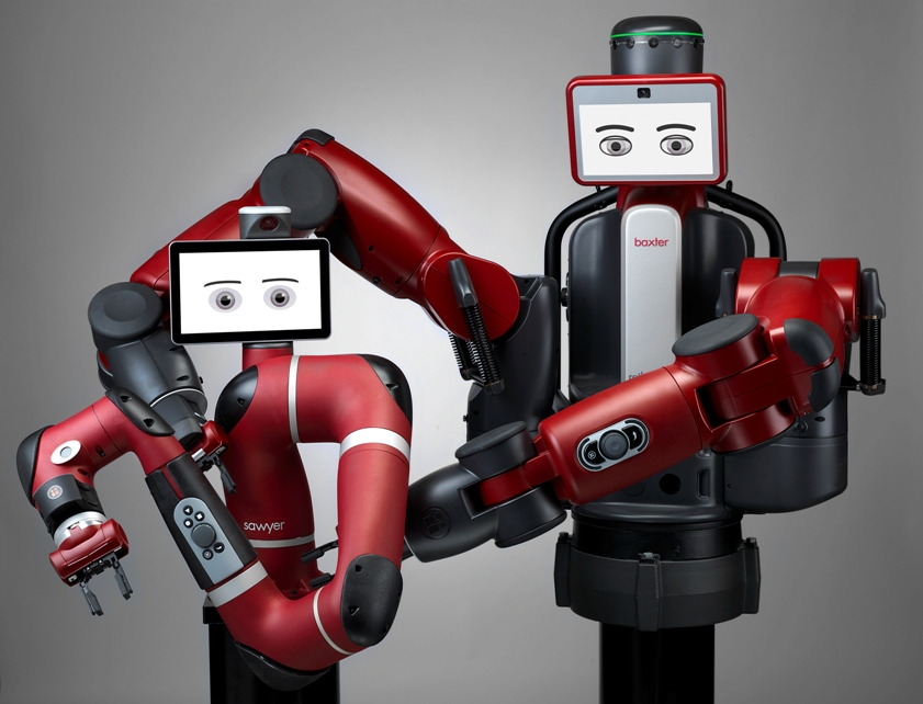 Sawyer and Baxter Collaborative Robots from Rethink Robotics